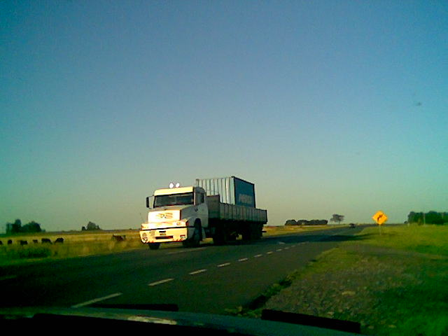 National Route 8 of Argentina, near Hughes at Santa Fe